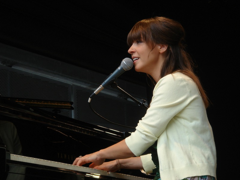 Laura Jansen performing in Vondelpark Amsterdan, the Netherlands, 22 August 2010